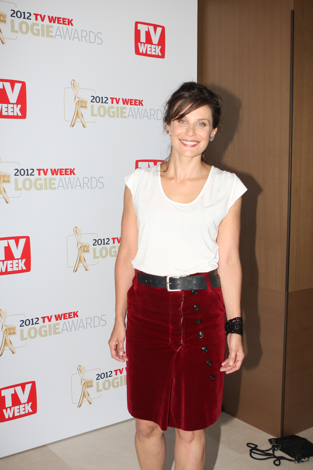 Australian actress Diana Glenn at the TV Week Logie Nominations In Sydney, Australia